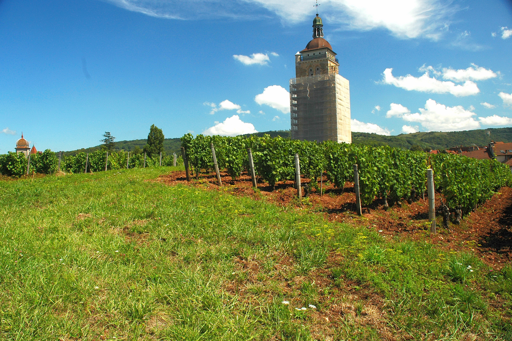 Church, Arbois, Jura, France